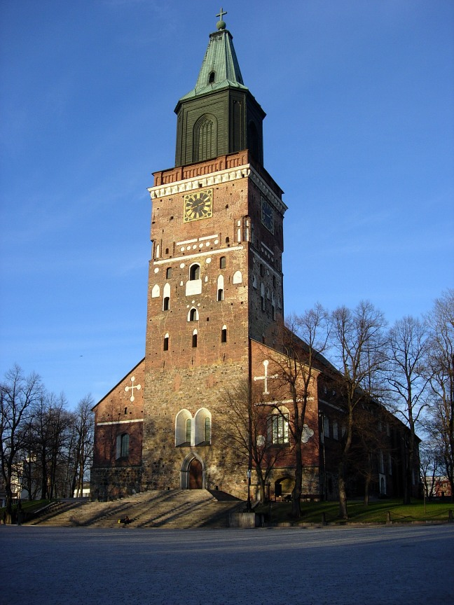 Cathedral of Turku